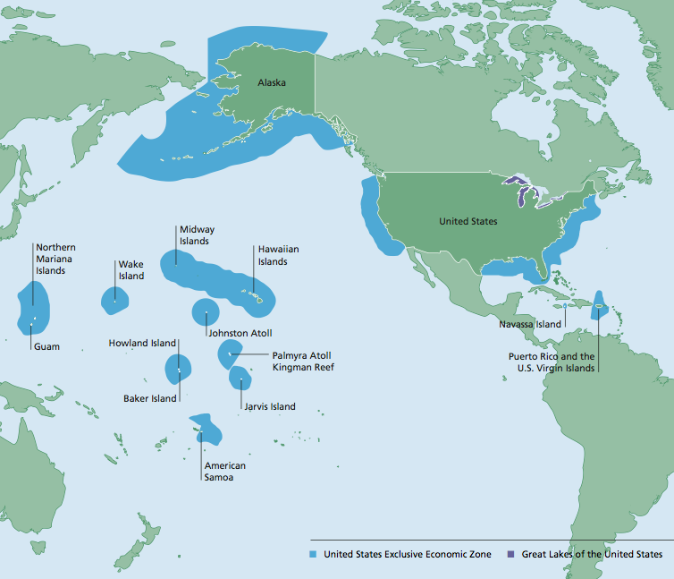 United States Exclusive Economic Zone - Pacific centered NOAA map